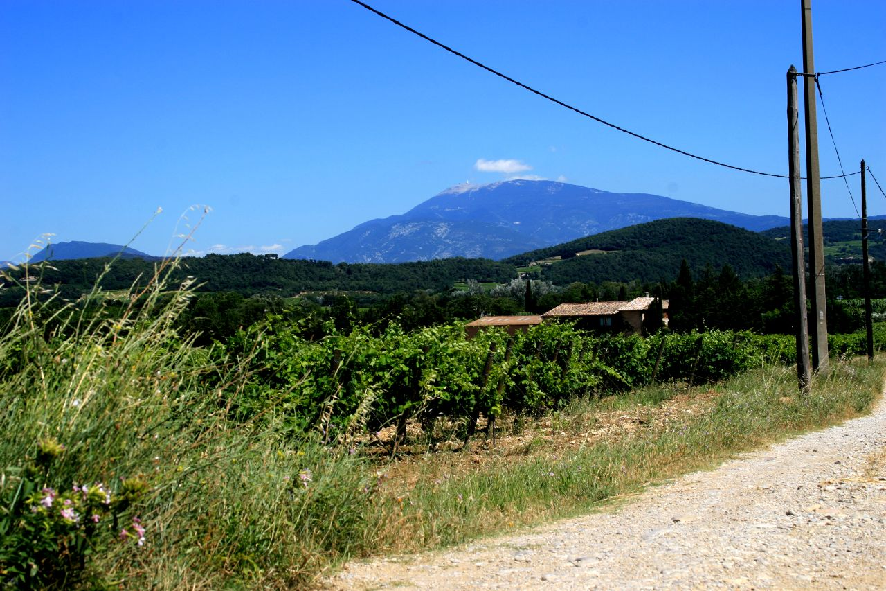 French vineyard in south eastern Ardèche with Mont Ventoux, located in the neighboring department of Vaucluse in the background.